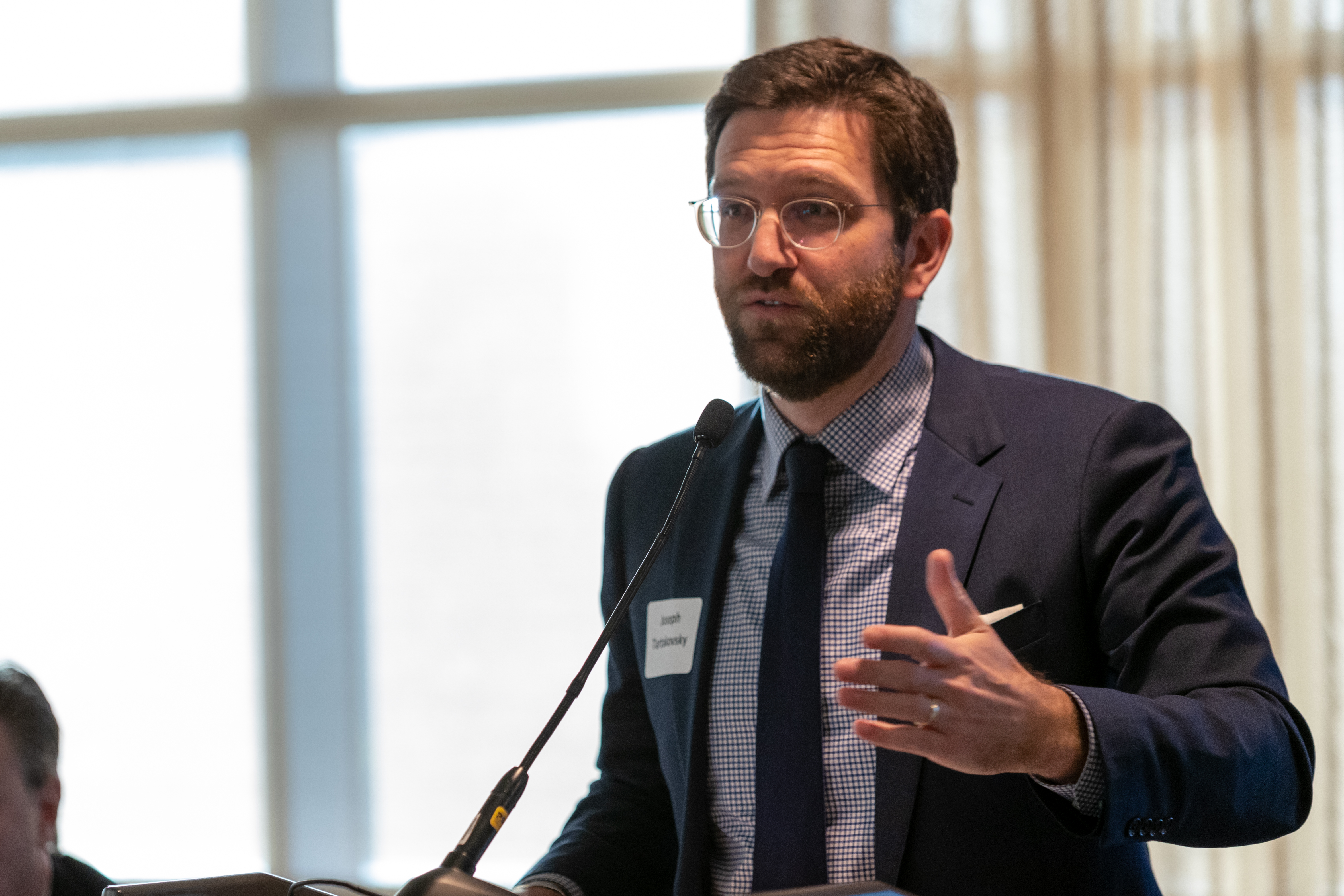 Photo of author and attorney Joseph Tartakovsky, at the Pacific Research Institute's 2020 California Ideas in Action conference, held in Sacramento, CA. The conference explored the theme "The 2020 California Vision: How Free Market Ideas Can Address the New Decade’s Major Challenges." Tartakovsky's panel covered the issue of homelessness.